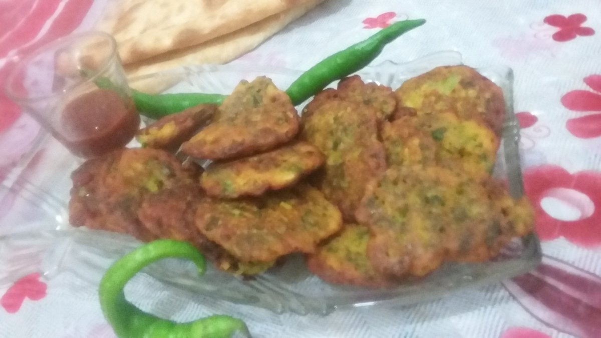 پکوره یک نوع فلافل بلوچی با طعم تند.